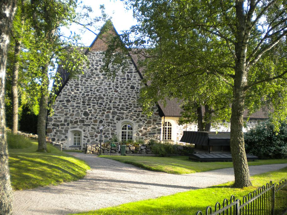 Värmdö Church, as released by image creator RistessonPlace: Värmdö, Sweden